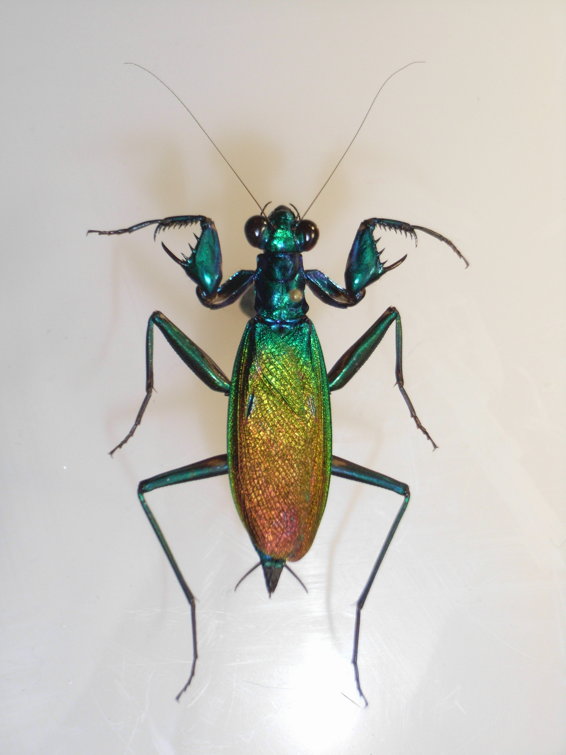 Metallyticus splendidus Ex coll Felix Stumpe